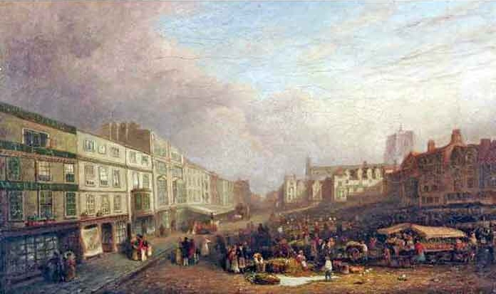 Market Place, Norwich, 1842, David Hodgson (1798-1864)